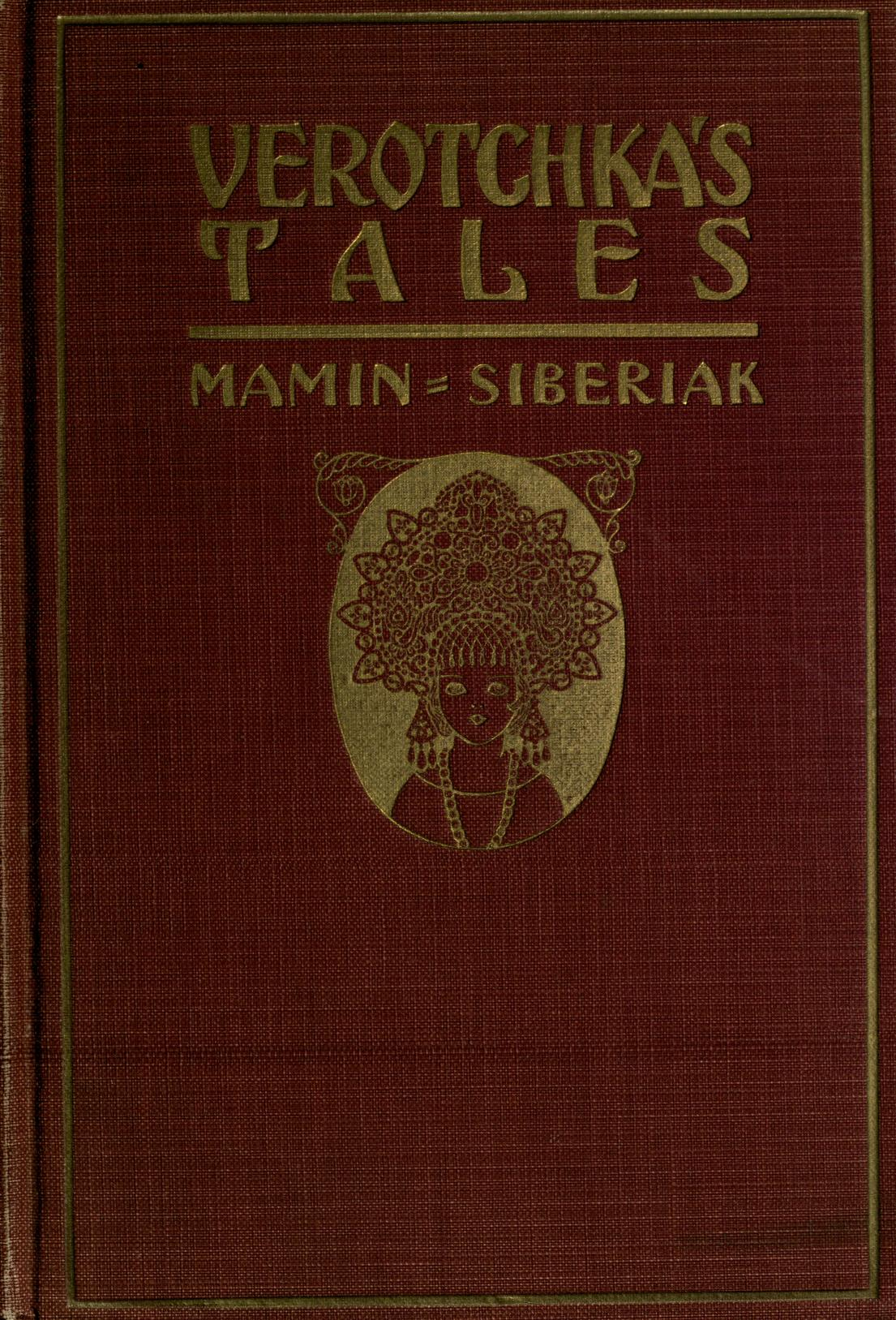 Cloth front cover to Verotchka's tales 1922